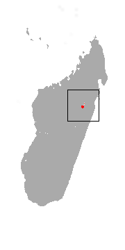 Lac Alaotra Gentle Lemur (Hapalemur alaotrensis) range